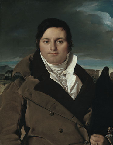 Joseph-Antoine Moltedo (c. 1810) by Jean Auguste Dominique Ingres, Oil on canvas, 75.2 x 58.1 cm, Metropolitan Museum of Art